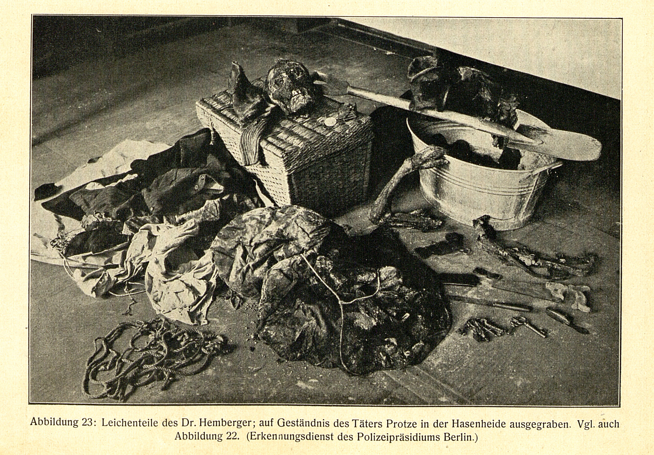 Body parts of the murdered teacher Anselm Hemberger.